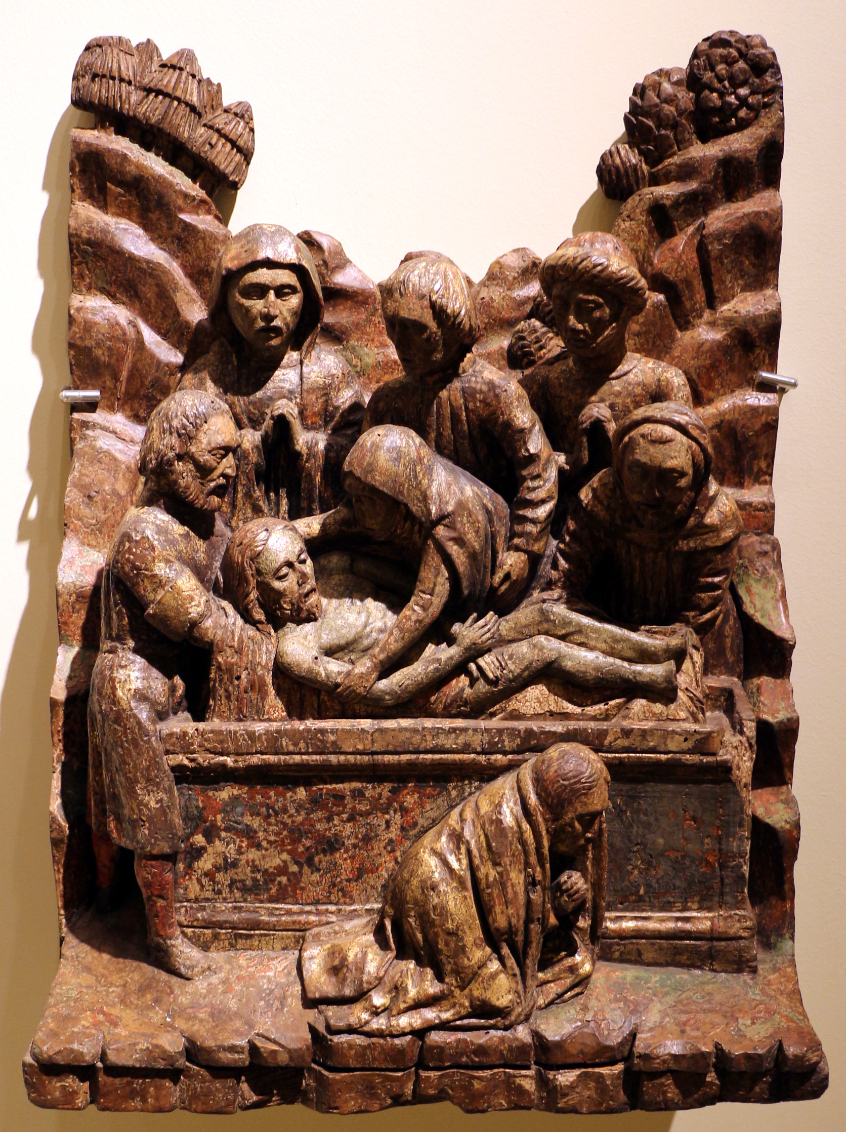 Raccolte d'arte applicate del Castello Sforzesco di Milano - Wooden sculptures